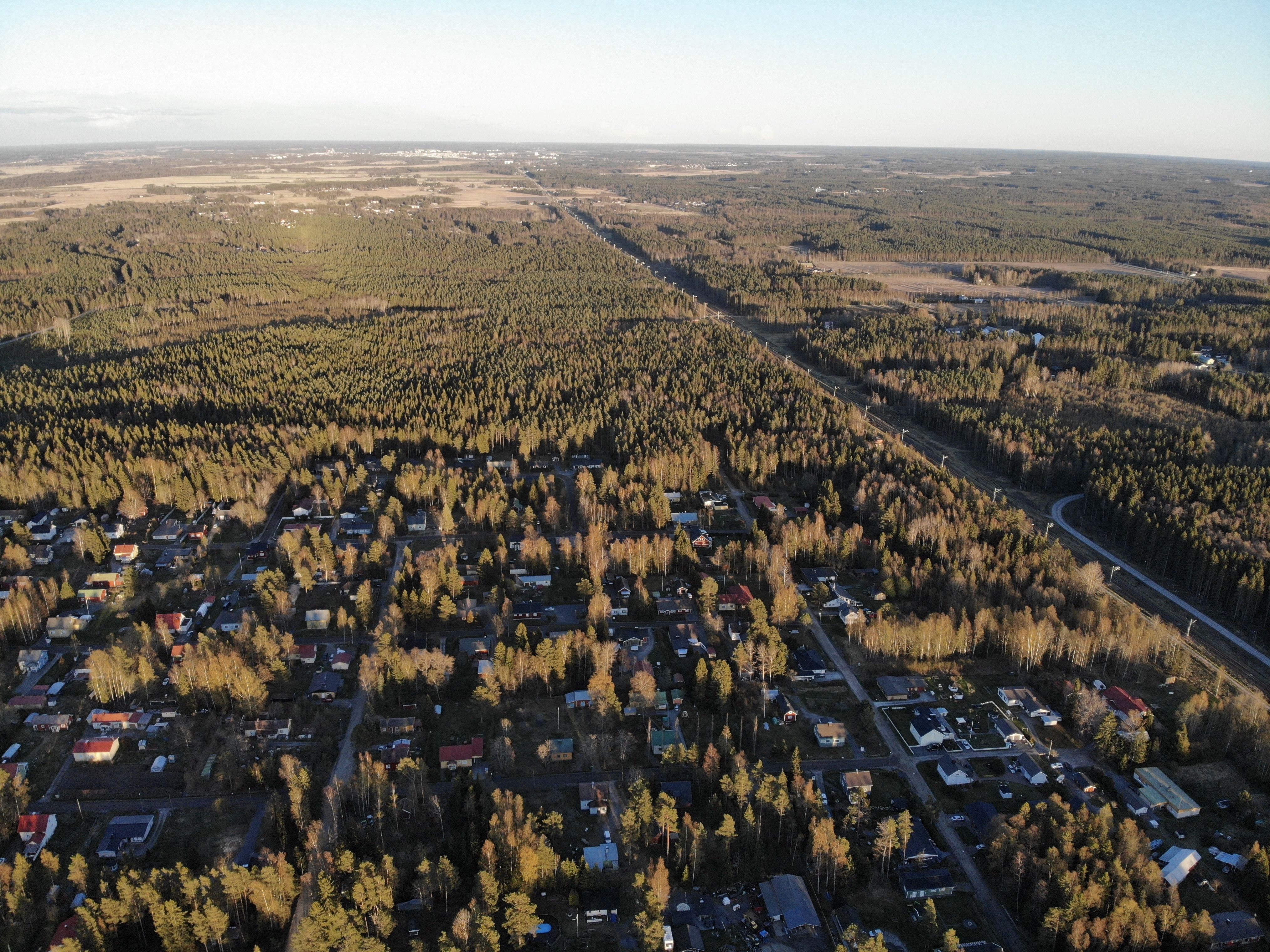 Aerial photograph from Enäjärvi, Pori.